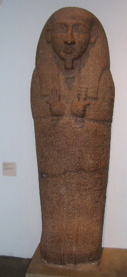 Sarcophagus (lid) of Setjau, viceroy of Kush under Ramses II. British Museum